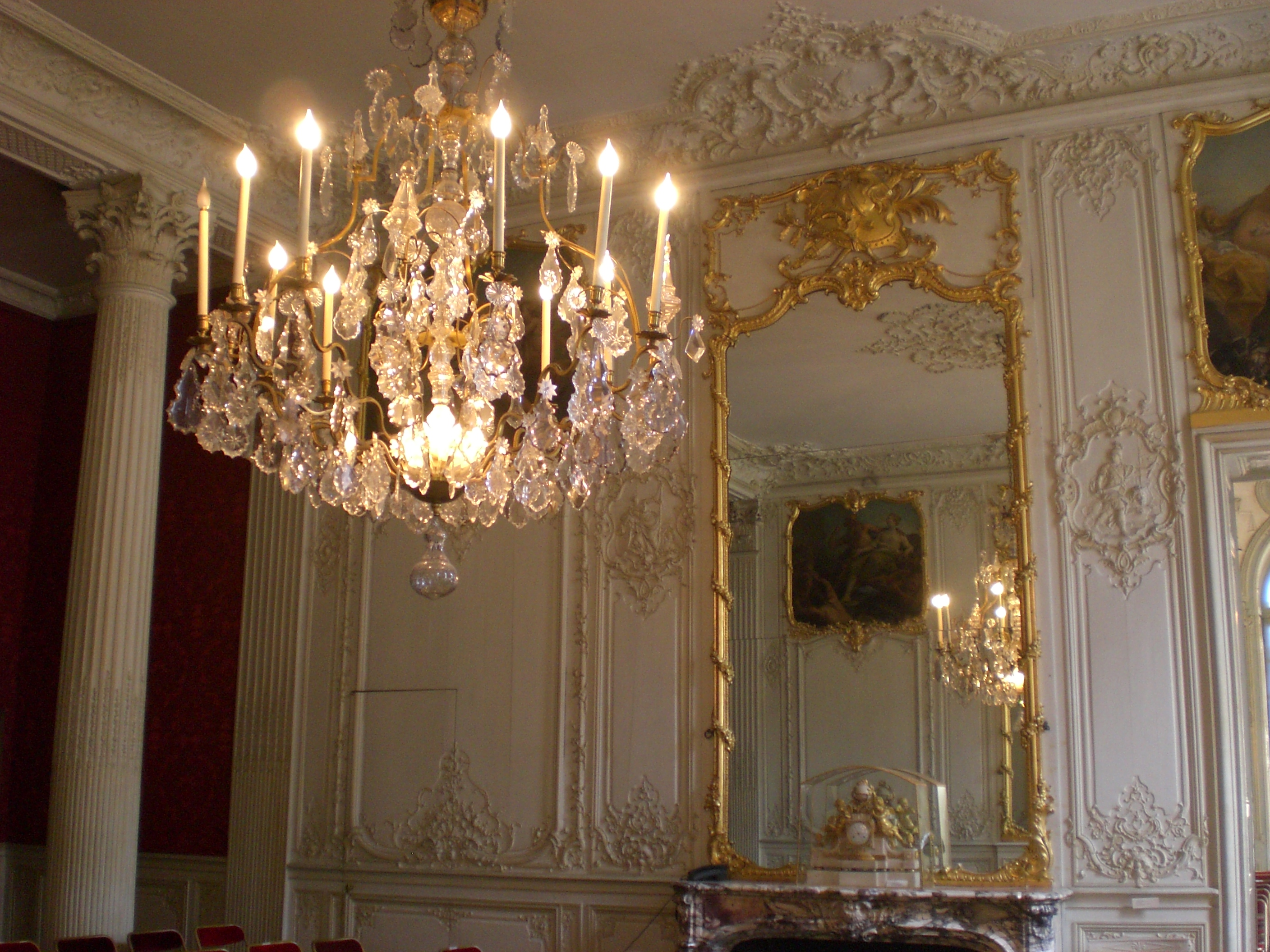 Paris, Hôtel de Soubise, Prince of Soubise Chamber